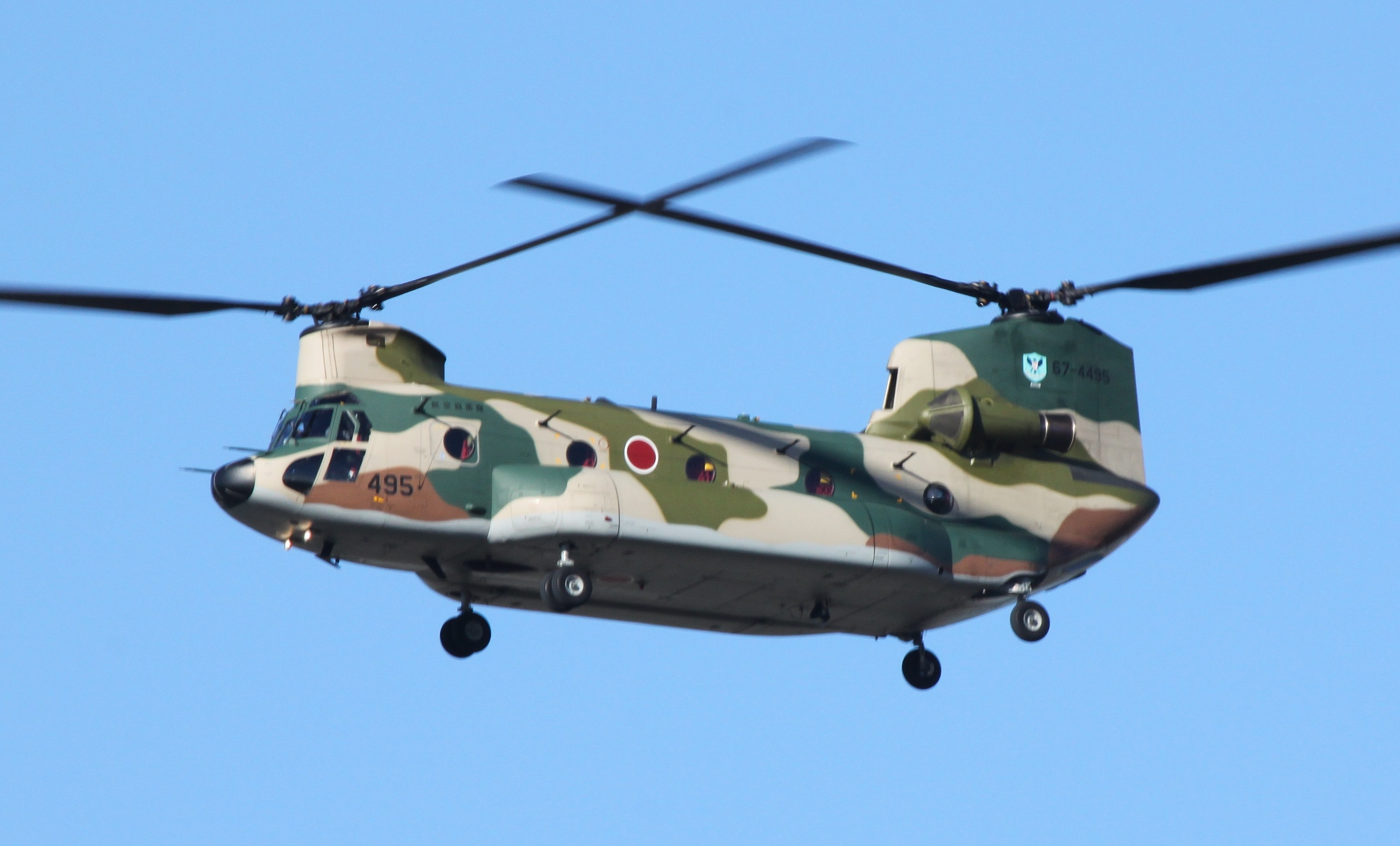 Even the Chinooks are colourful